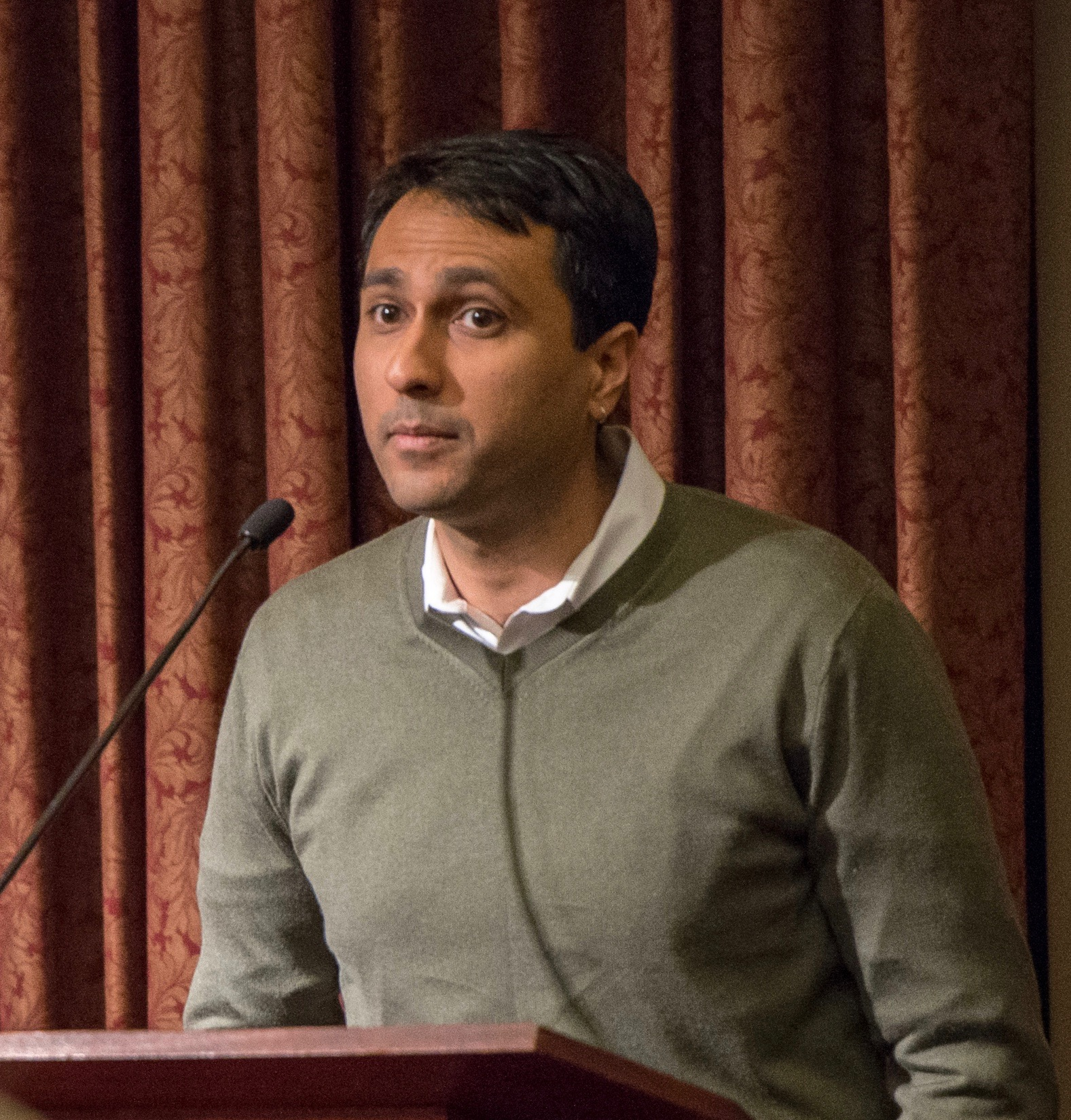 Eboo Patel, founder and president of Interfaith Youth Core, giving a lecture at Roanoke College in February 2013.